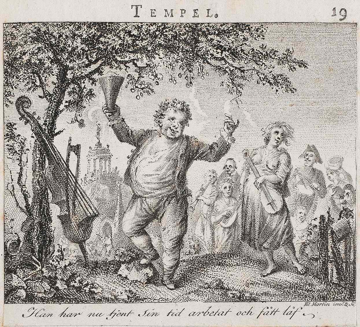 Illustration of drunken celebrations from Bacchi Tempel, 1783. Songbook by Carl Michael Bellman, illustrated by Elias Martin